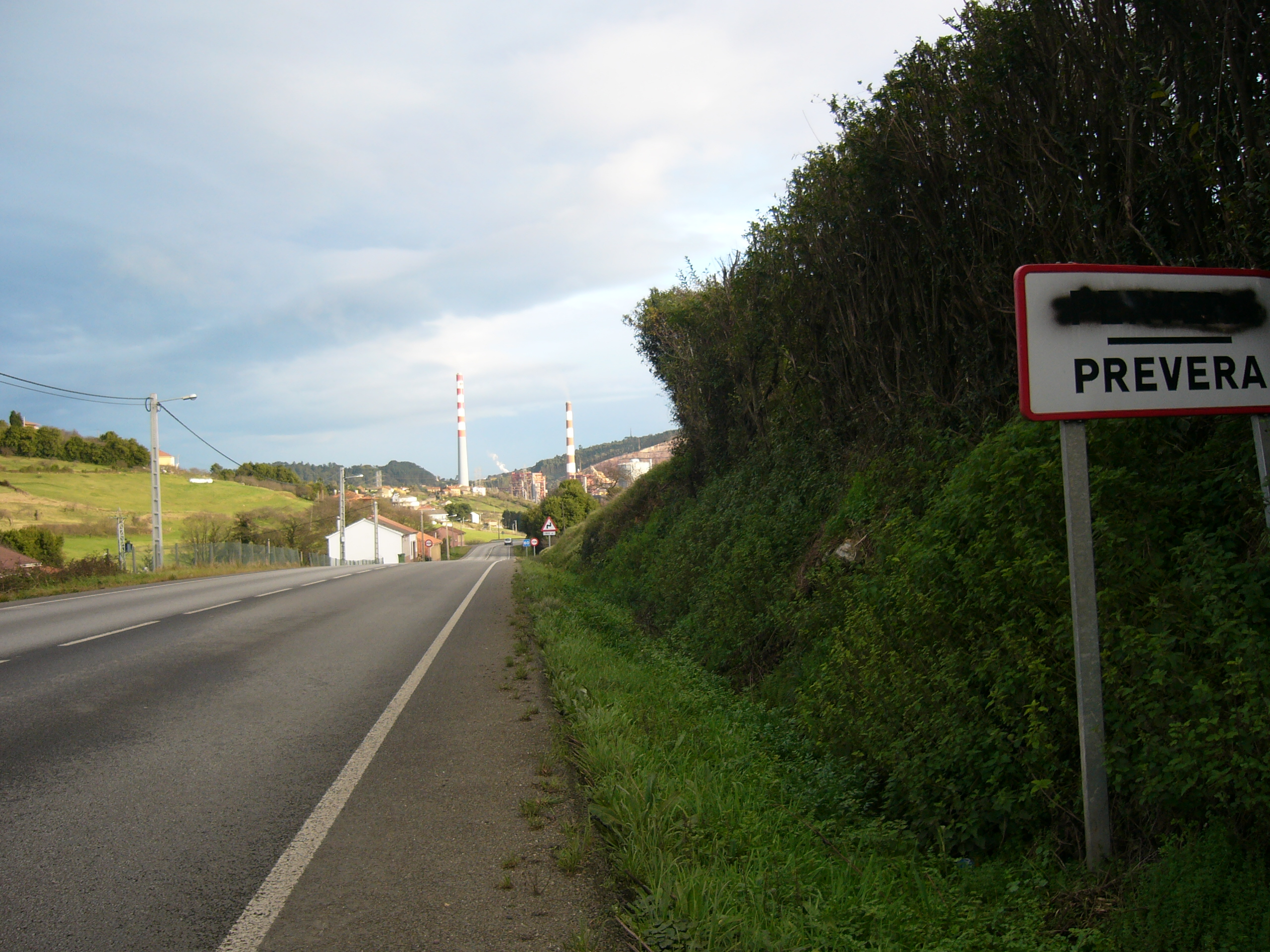 AS-19 road in Prevera (Carreño - Asturies - Spain)